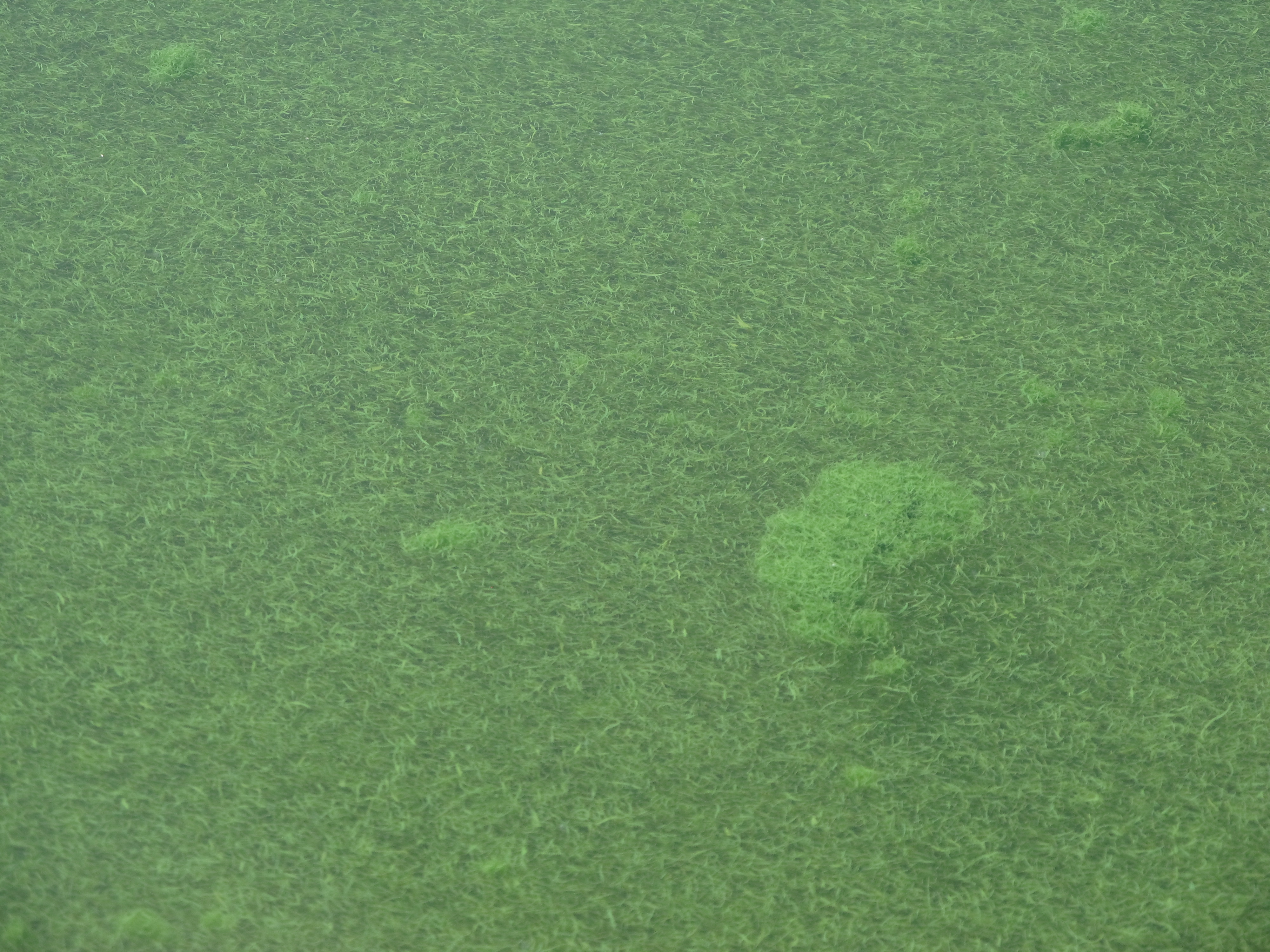 Aphanizomenon flos-aquae cyanobacterial bloom on the Upper Klamath Lake. Large macrocolonies are visible with the traditional "grass-blade" appearance.